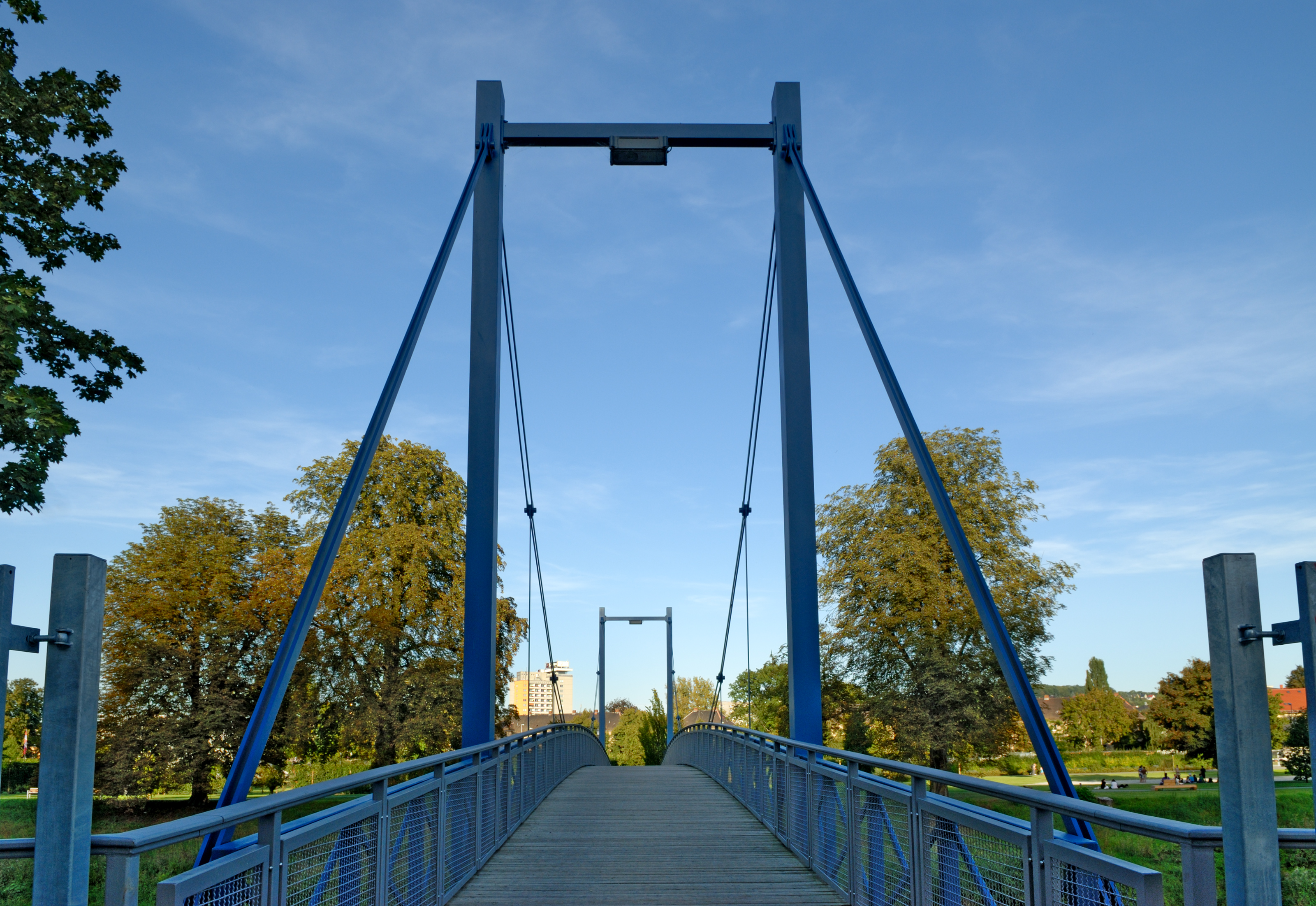 This image shows the Textima bridge ("Textimasteg") in Gera, Germany.